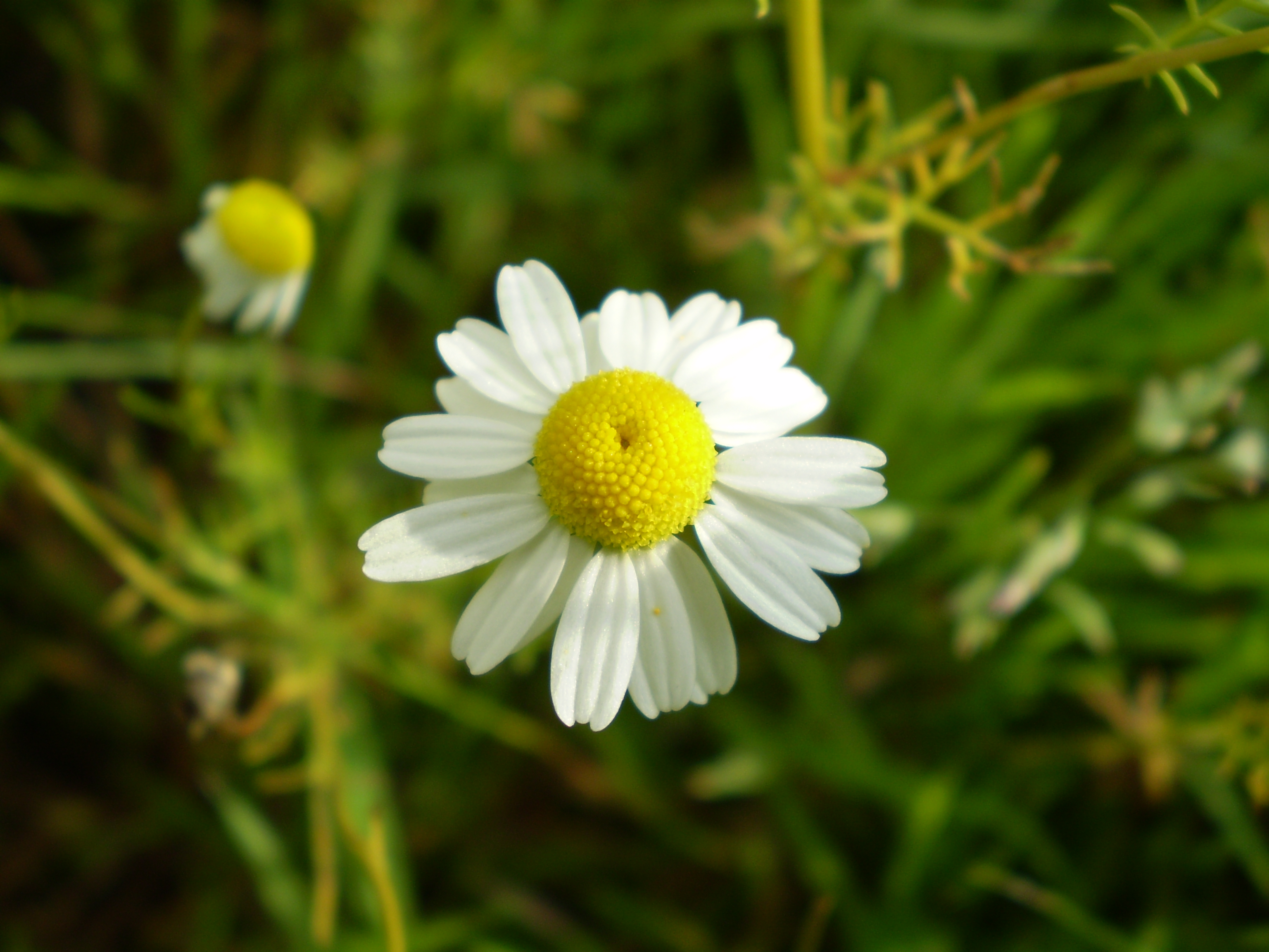 Chamomile, Matricaria recutita